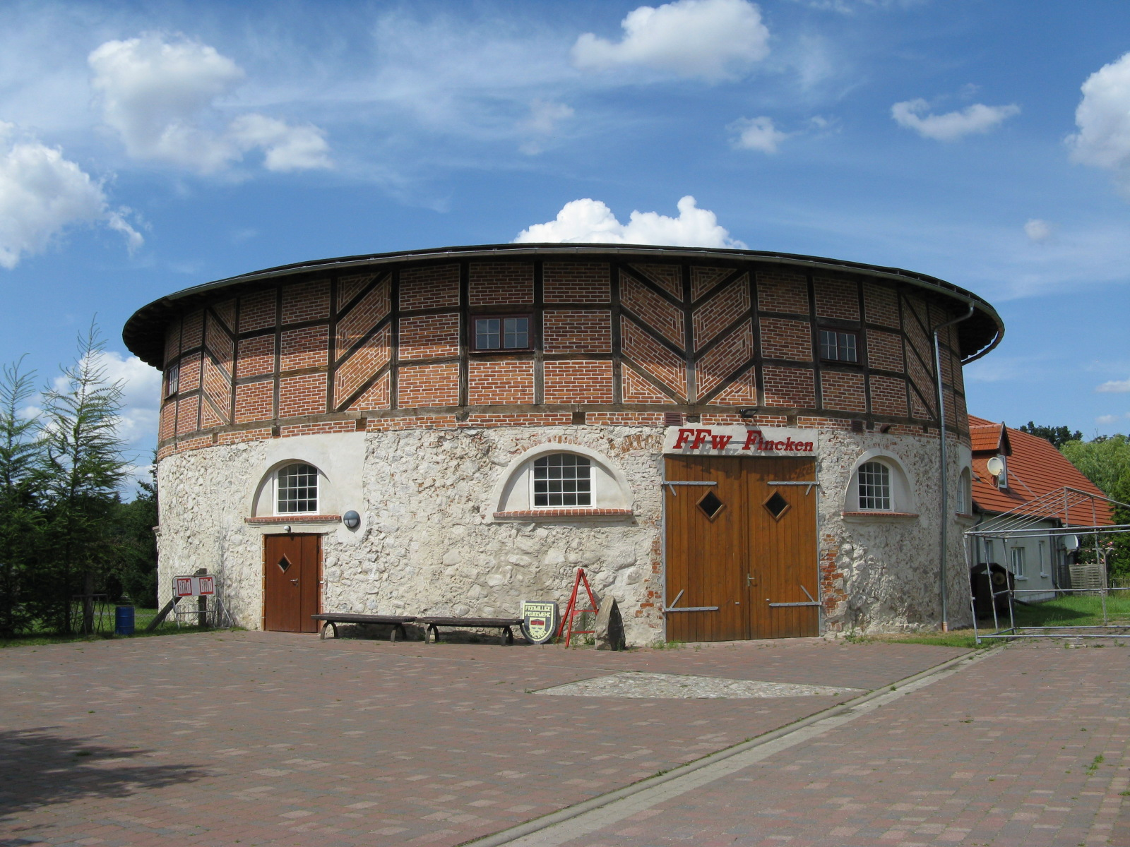 Round barn in Fincken, disctrict Müritz, Mecklenburg-Vorpommern, Germany